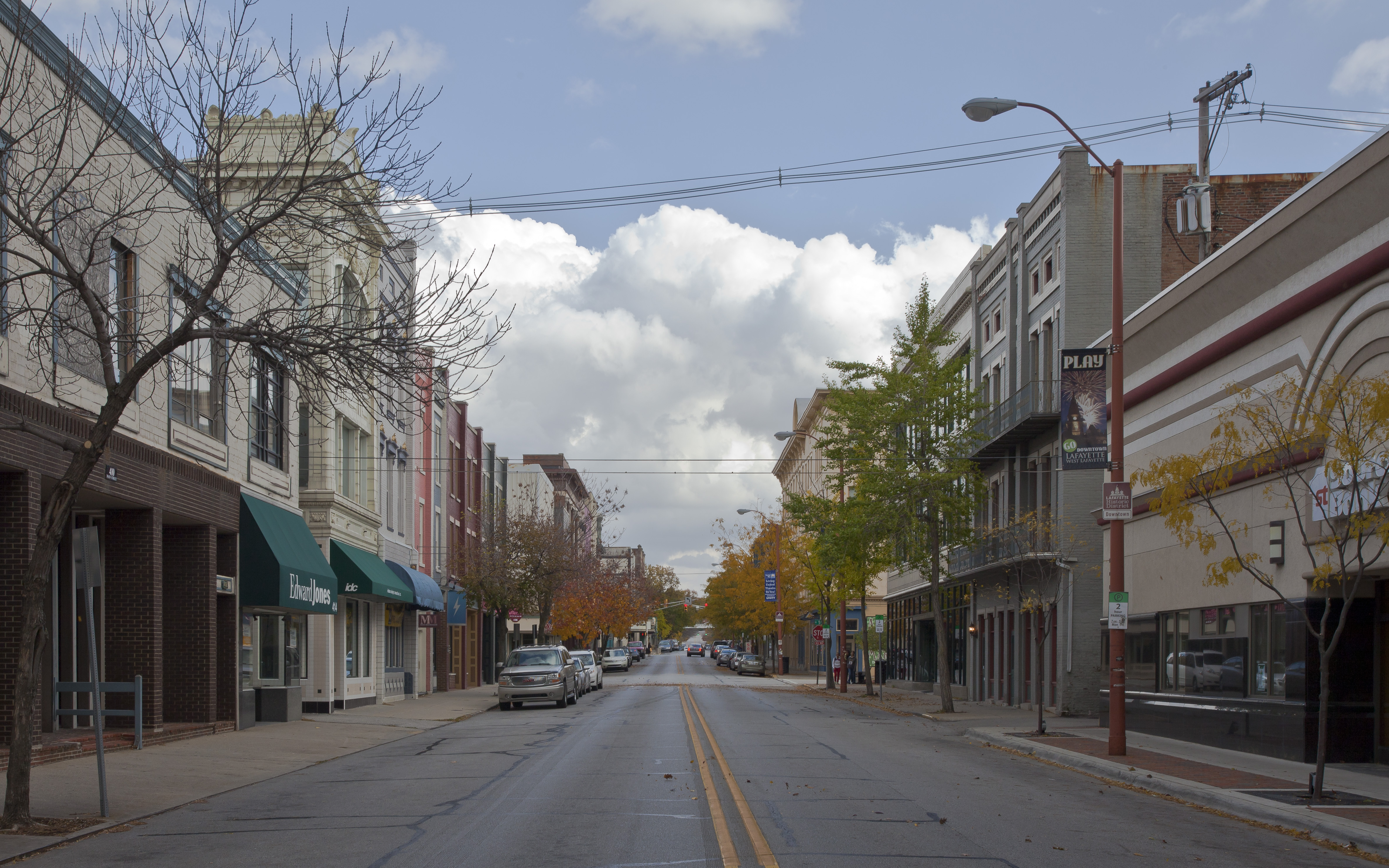 Main St., Lafayette, Indiana, USA